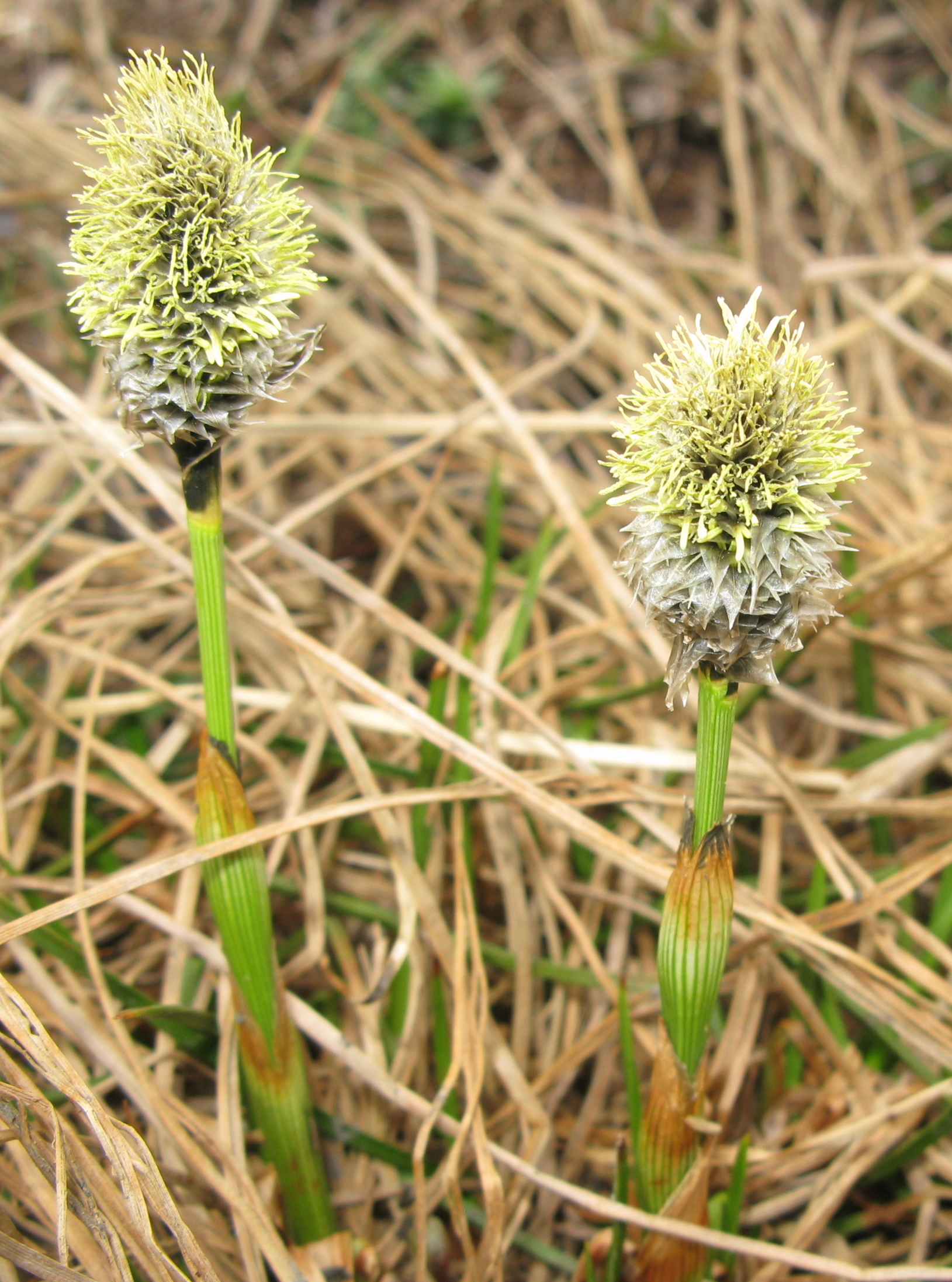 Eriophorum vaginatum, Mt. Nishiazuma, Fukushima pref., Japan